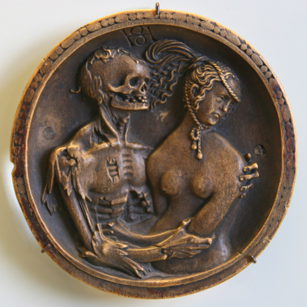 Hans Schwarz (Augsburg, c. 1492/93 - after 1532(?)): Death and the Maiden. Augsburg, c. 1520. Boxwood. Bode-Museum, Berlin, acquired 1930, Figdor Collection, Kaiser-Friedrich-Museums-Verein Inv. M 187.